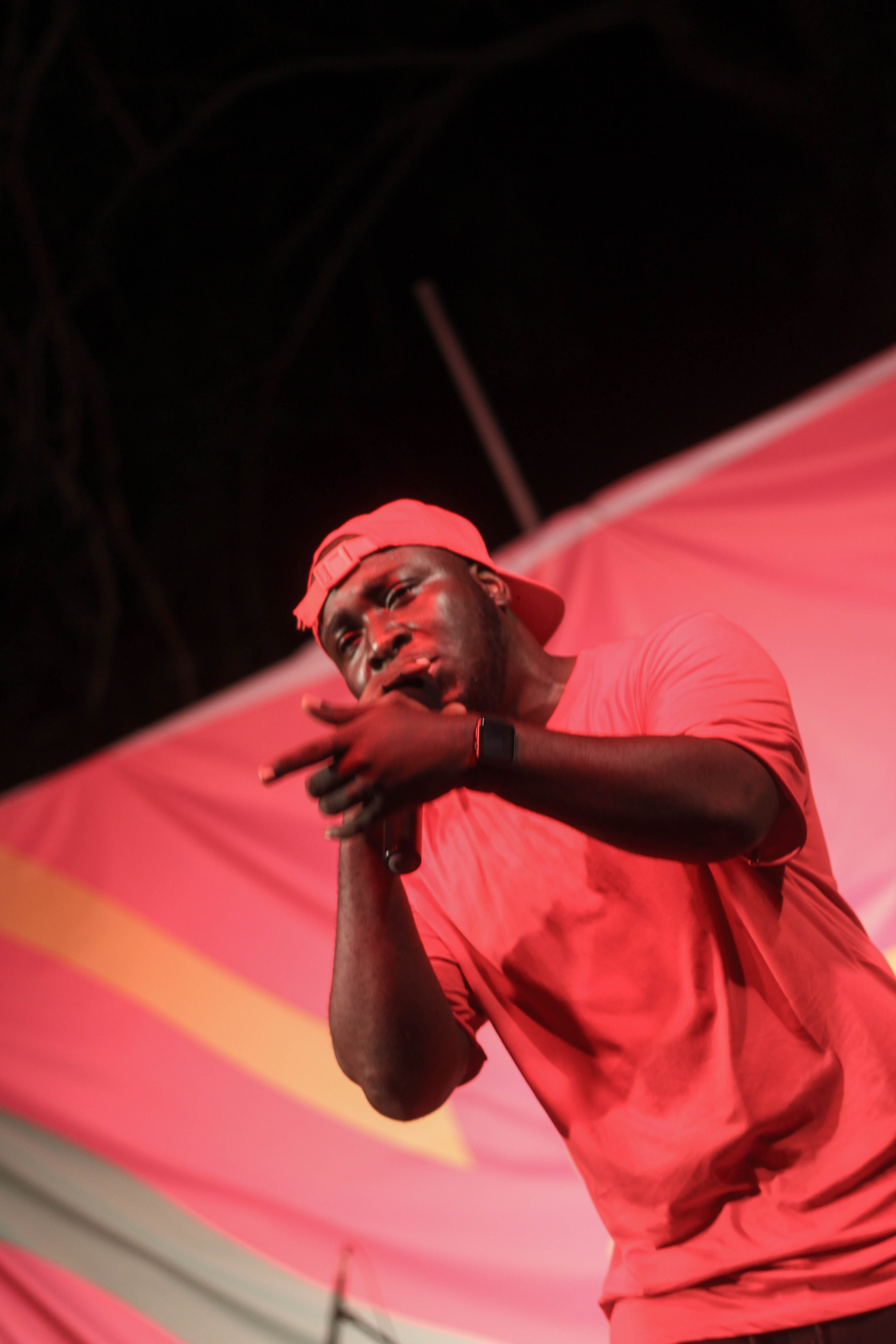 Jayso performs at Sabolai Radio #SabolaiRadio